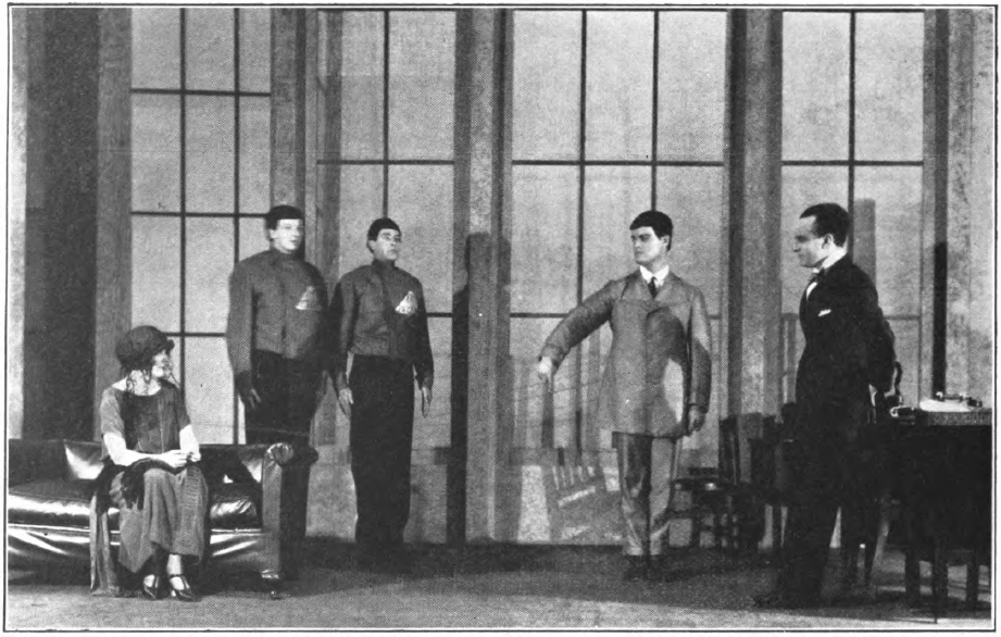 R. U. R. (Rosssum's Universal Robots). From Act I of the play by Karel Čapek, produced by Theatre Guild. On the left: Helena Glory, played by Kathlene MacDonell. On the right Harry Domin, played by Basil Sydney.